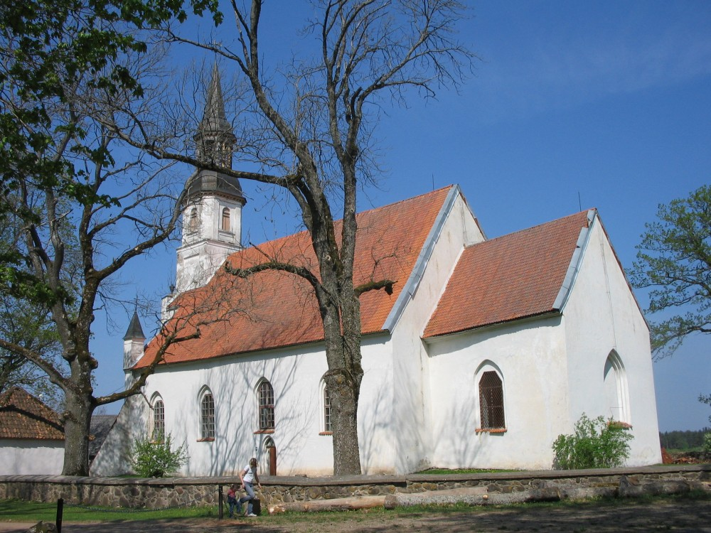 Burtnieki Evangelical Lutheran Church